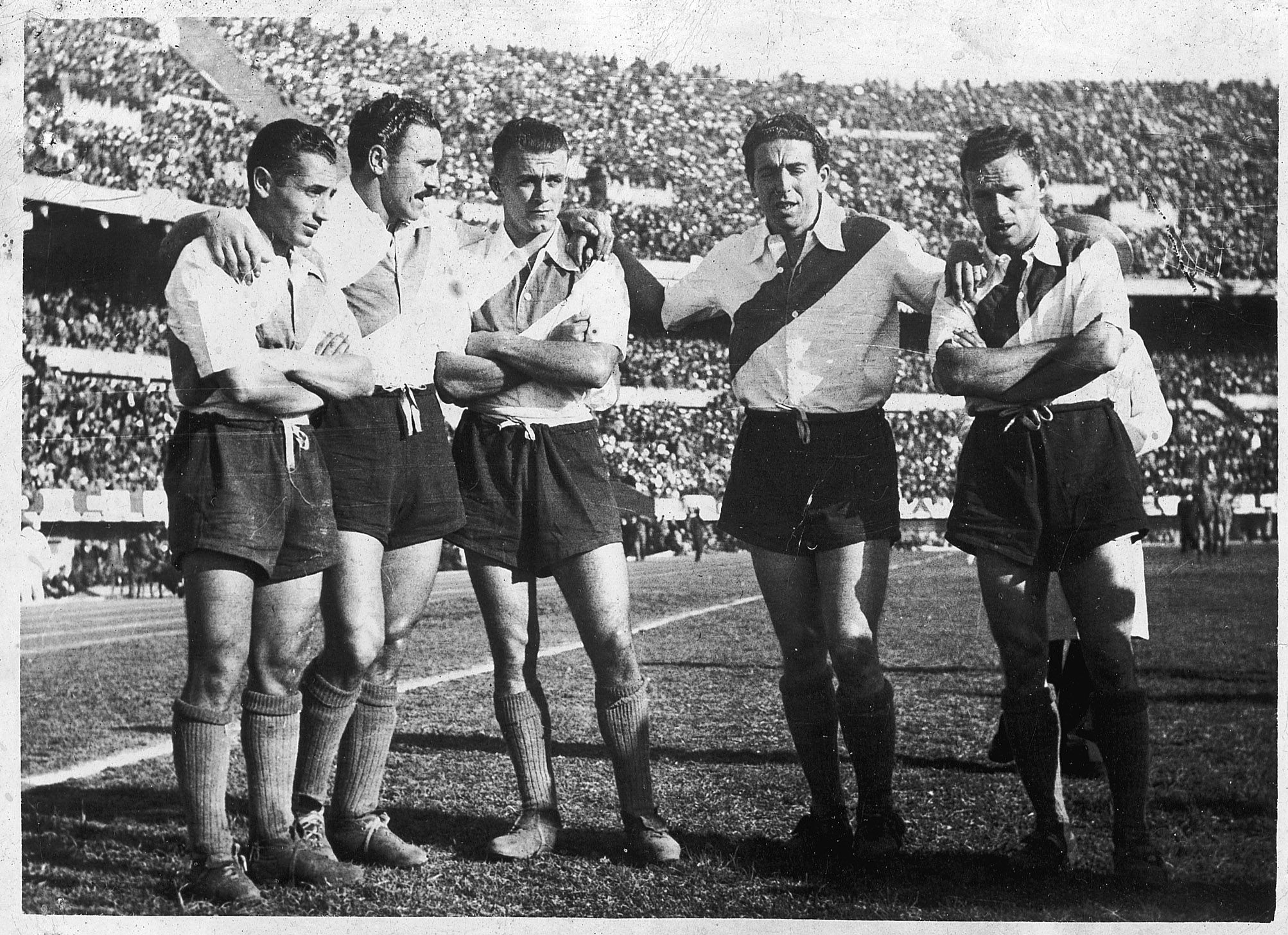 From left to right: Hugo Reyes, José Manuel Moreno, Alfredo Di Stéfano, Ángel Labruna and Félix Loustau.